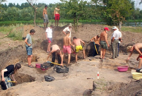 Archaeological excavation in Svetlahorsk town, Homiel voblasts, Belarus. 2008.